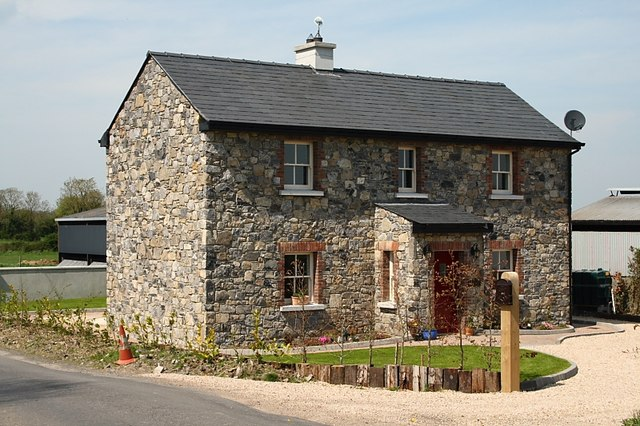 Stone House Newly constructed stone house at Walshestown North.